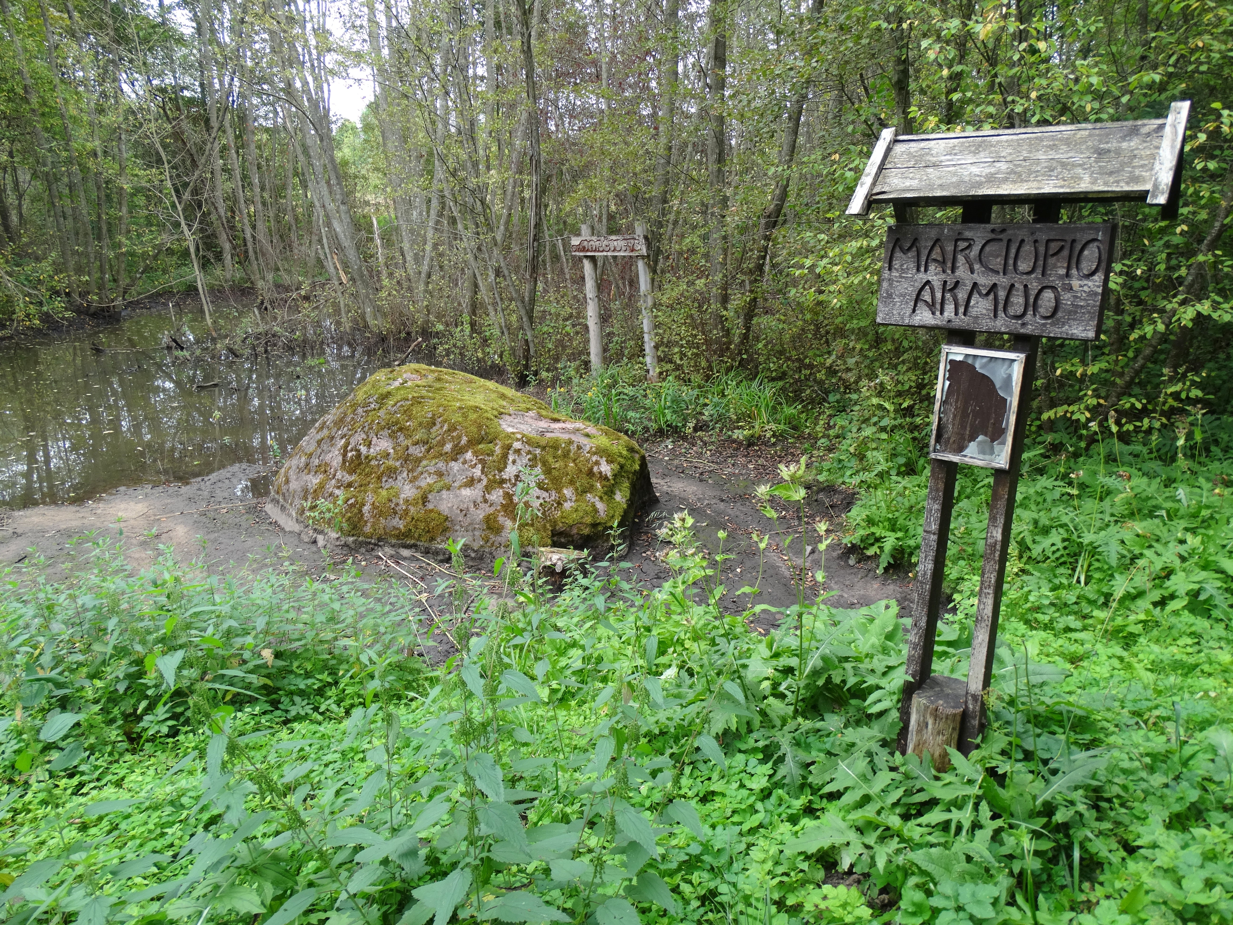 Mythological stone Marčiupys, Anykščiai district, Lithuania